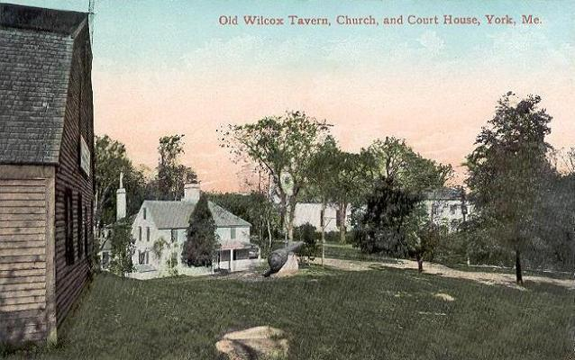 Old Wilcox Tavern, First Parish Church and Court House (Town Hall), York Village, ME; from a c. 1910 postcard.